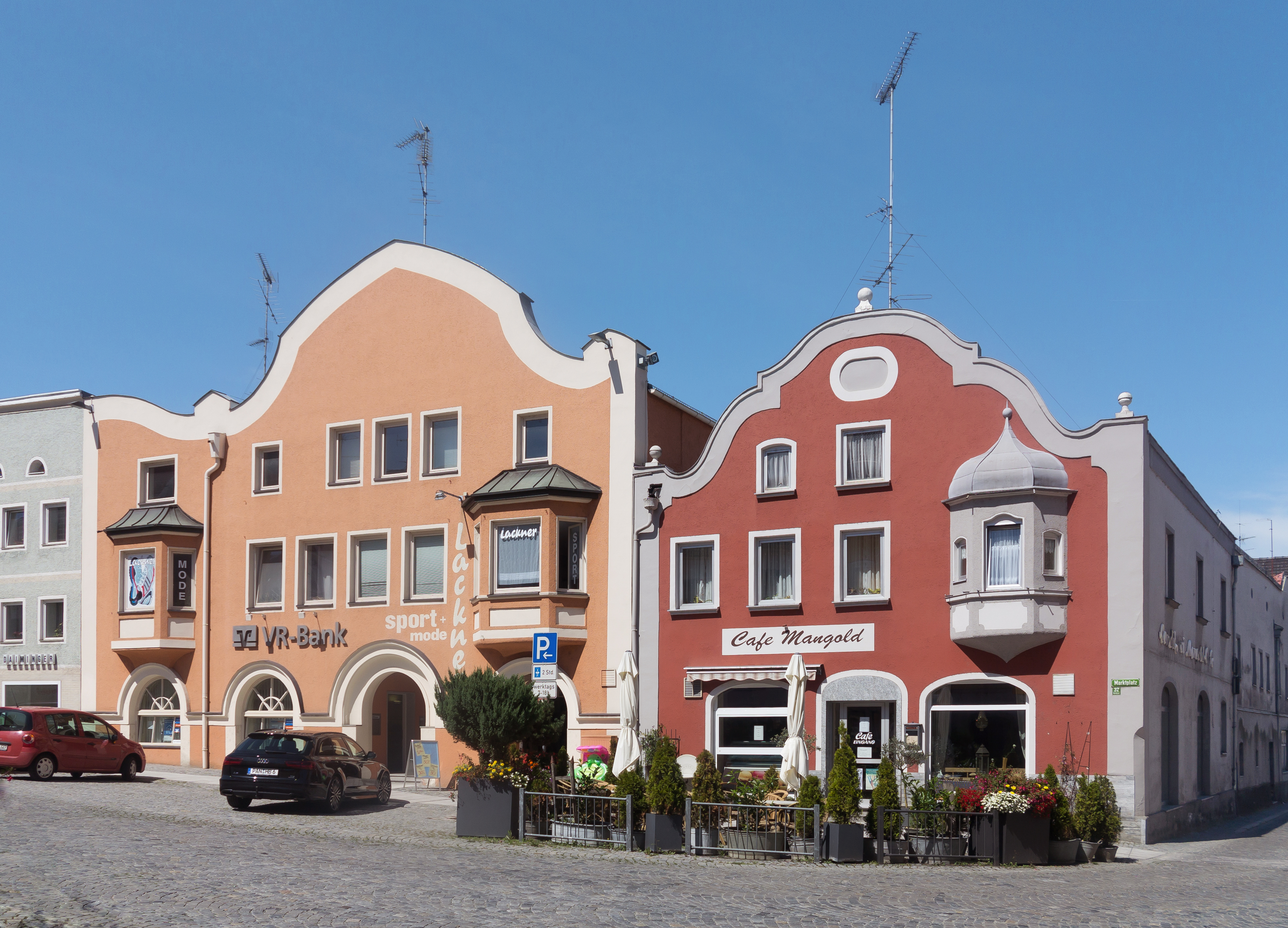 Rotthalmünster, monumental hauses at the Market PlaceThis is a photograph of an architectural monument. is a photograph of an architectural monument.